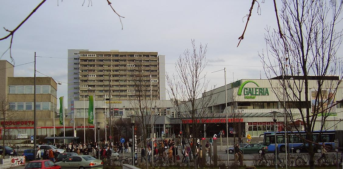 Olympia-Einkaufszentrum (shopping mall) in Munich / Germany